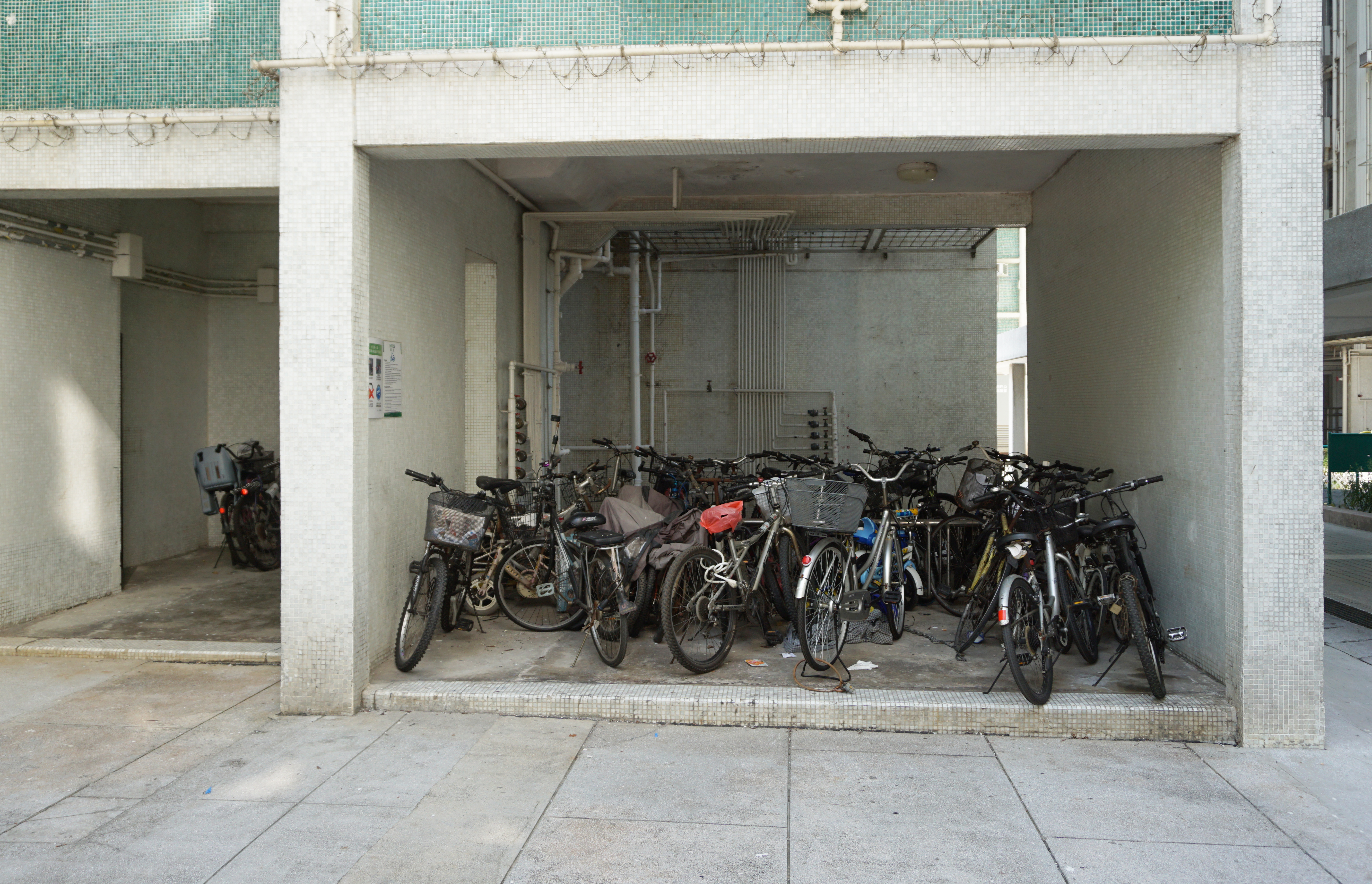 City One in Shatin, Hong Kong.